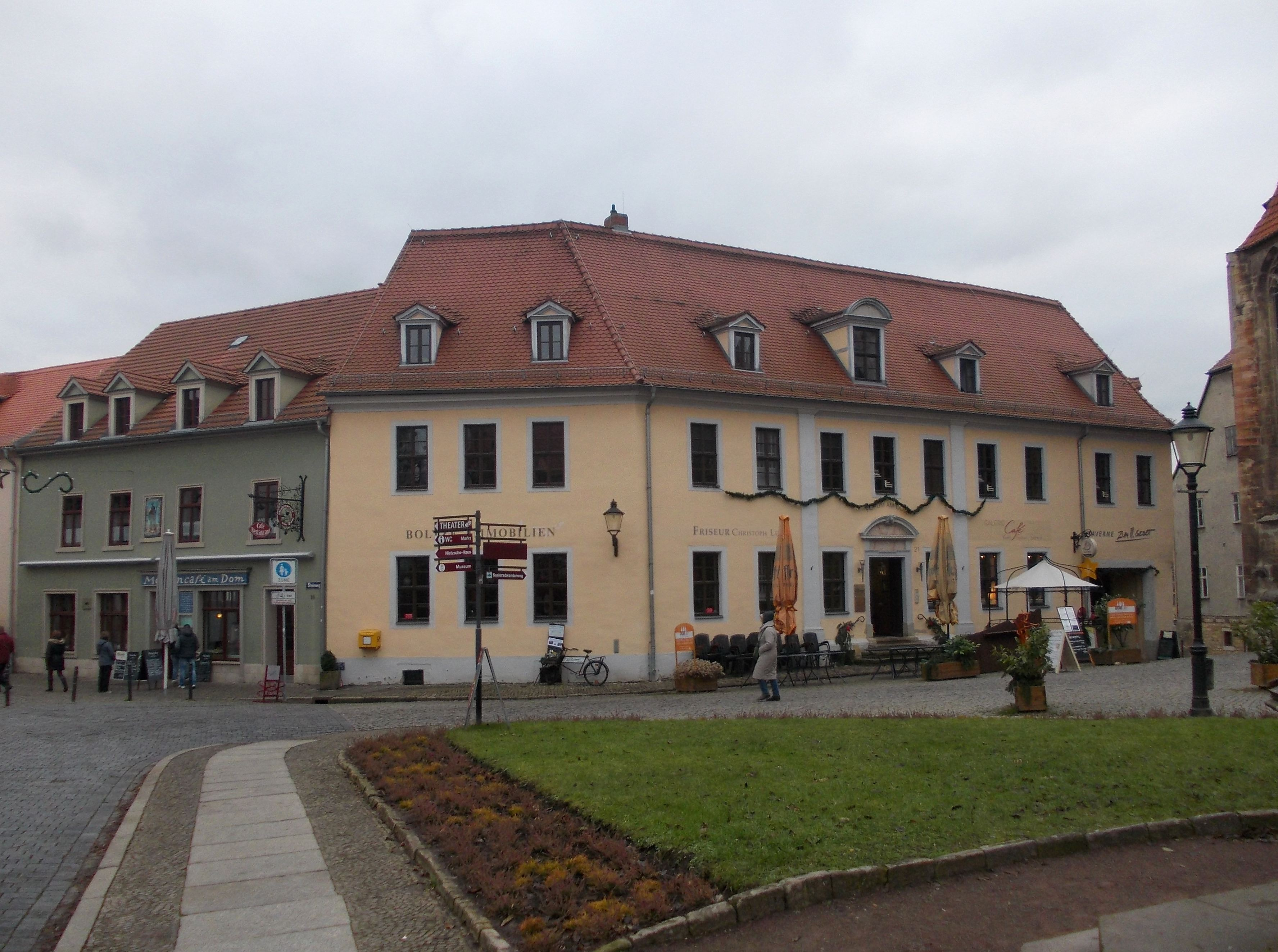 The corner of Domplatz and Steinweg in Naumburg (district: Burgenlandkreis, Saxony-Anhalt)